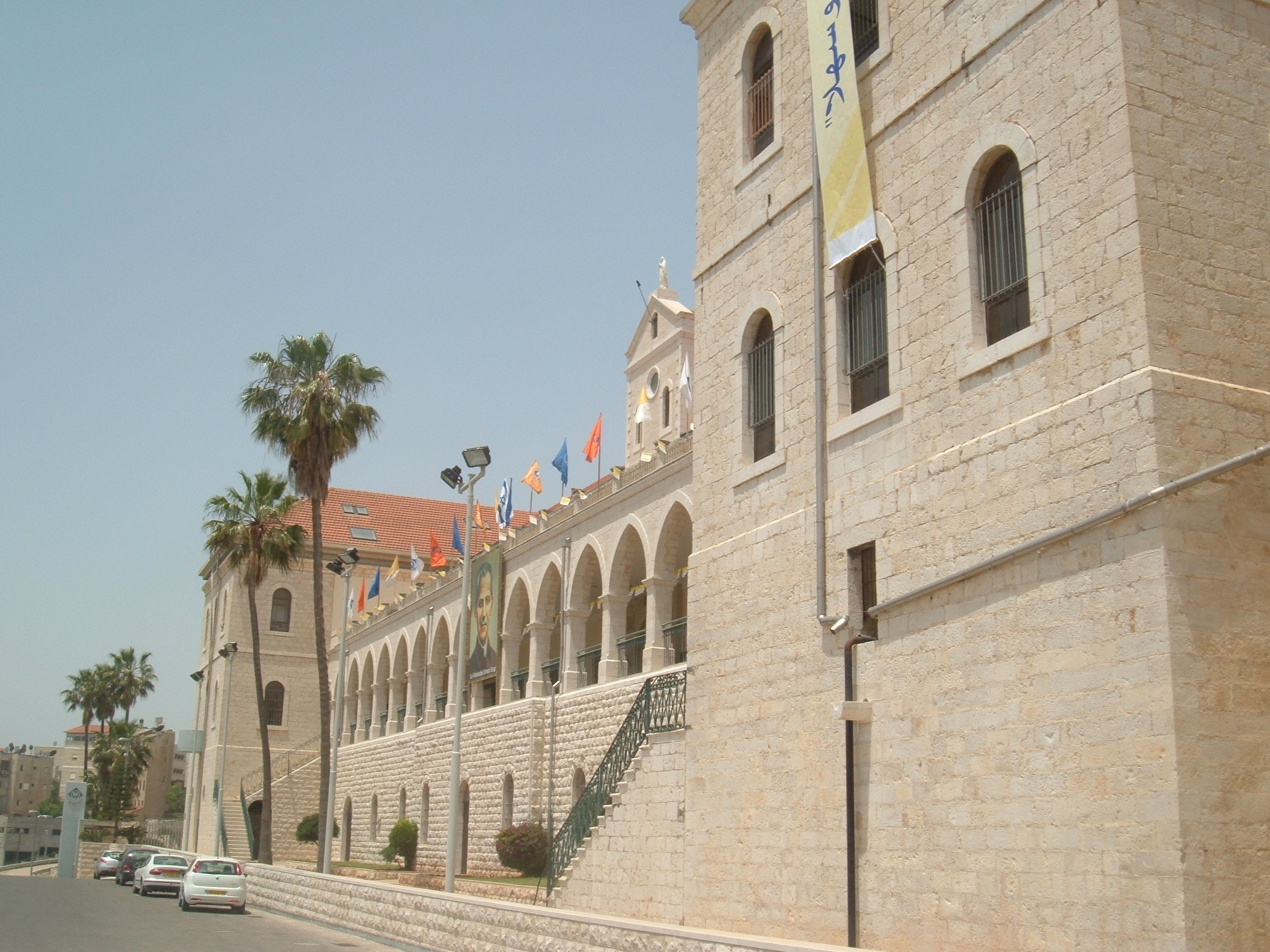 Don Bosco school inside Salesian church compouns in Nazareth בית הספר הטכנולוגי דון בוסקו במתחם הכנסייה הסלזיאנית בנצרת